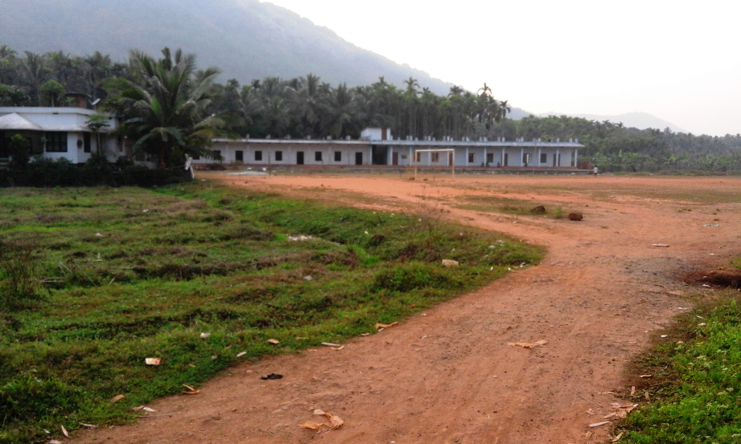 Arimbra Hills, Kondotty, Malappuram Dt., Kerala, India.